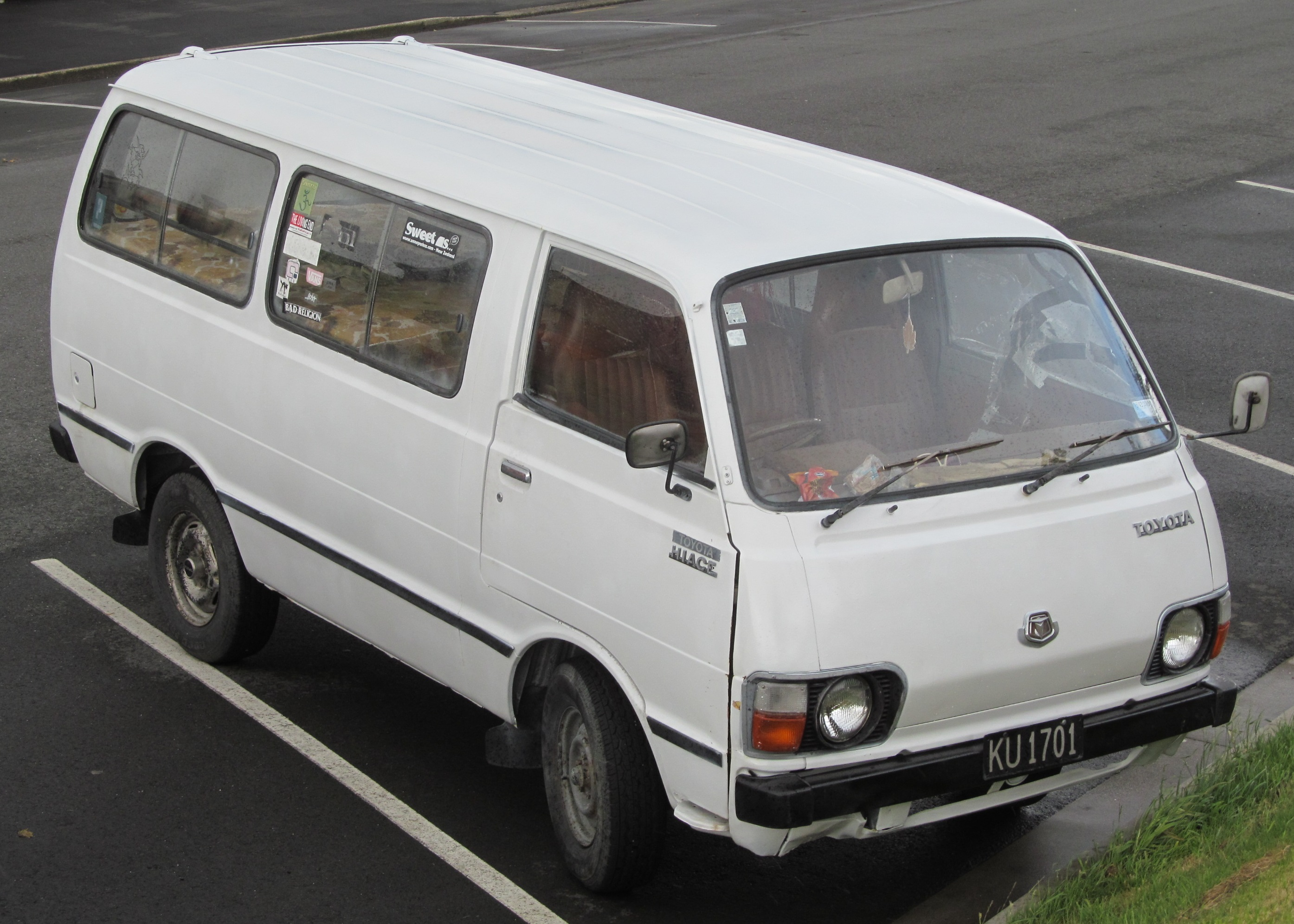 1982 Toyota HiAce (RH22), NZ spec, in Invercargill, New Zealand. Vehicle registration enquiry results Jurisdiction New Zealand Registration KU1701 Chassis code 7A8H60F0894907773 Engine code 2119972 (1998 cc petrol) Year of manufacture 1982